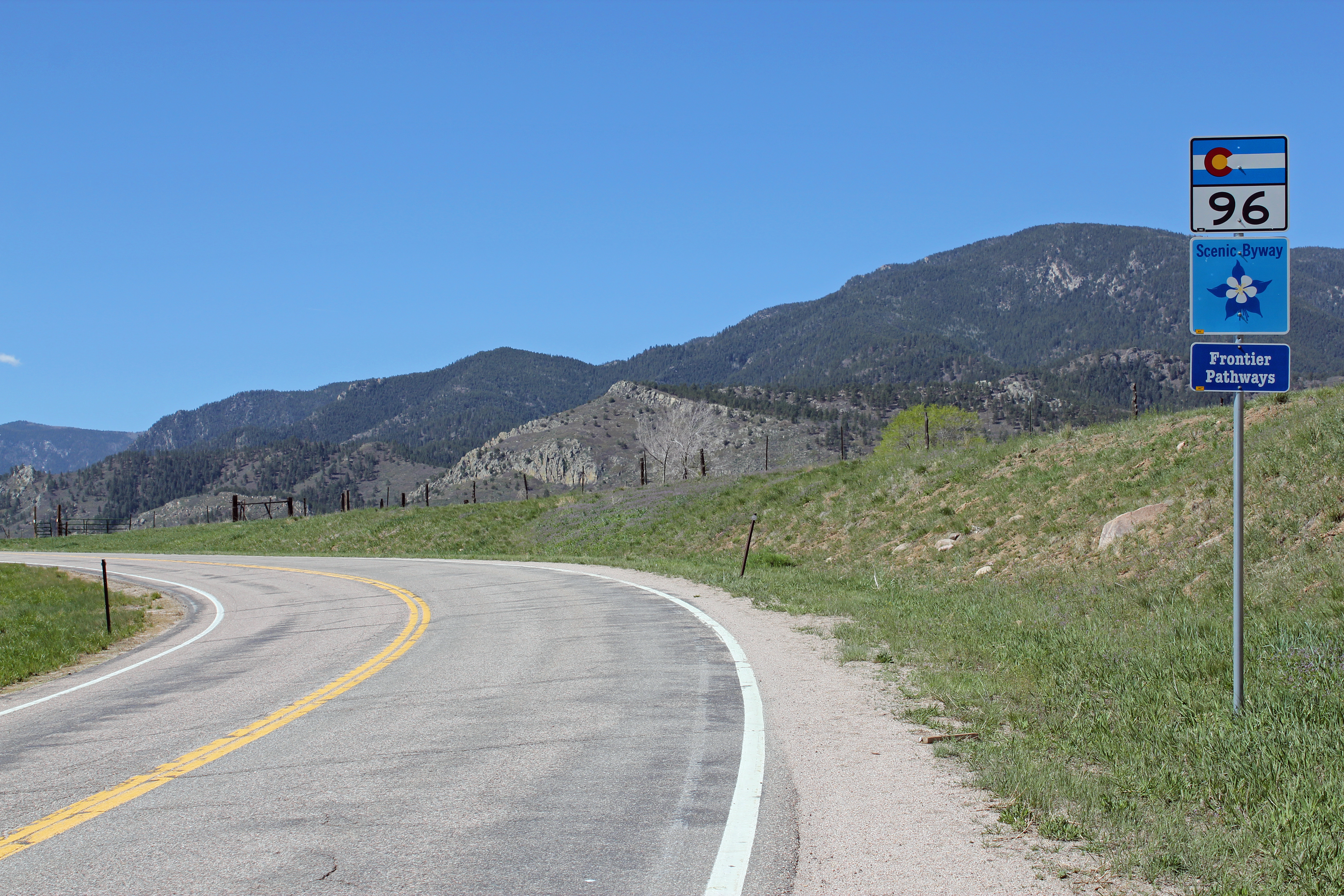 The Frontier Pathways Scenic and Historic Byway, as it passes through Wetmore, Custer County, Colorado. Here it is Colorado State Highway 96. The mountains in the background are the Wet Mountains.